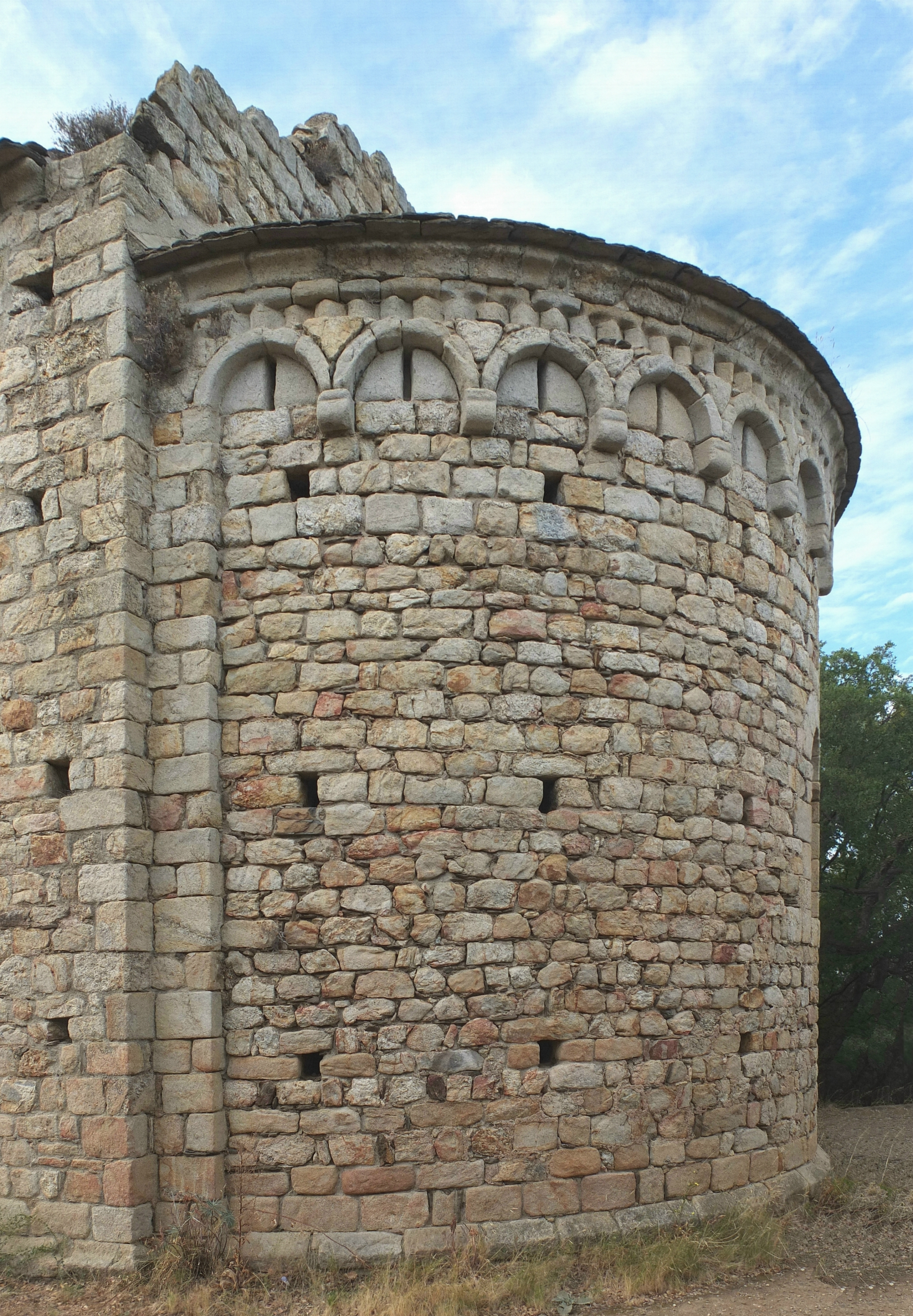 Apse of Romanesque chapel "Saint-Laurent-du-Mont" near Argelès-sur-Mer, France (view E).